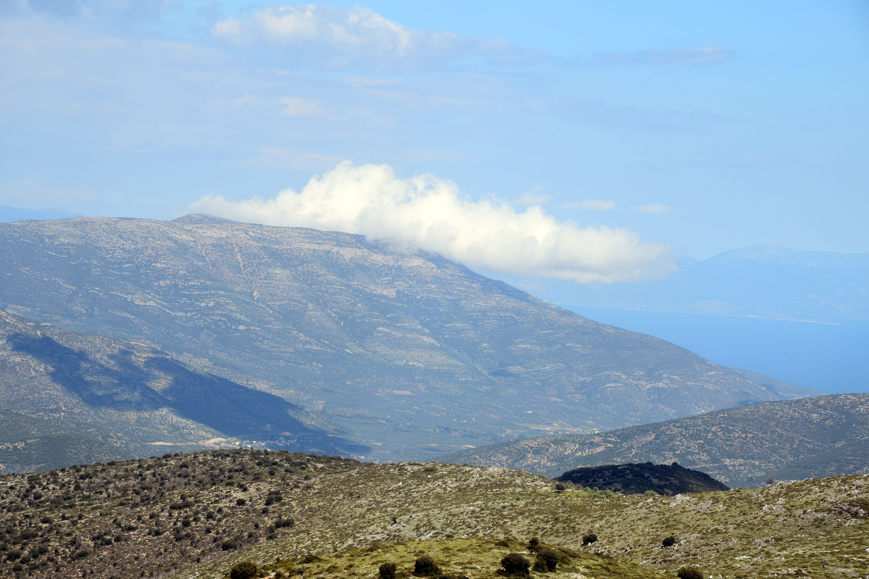 Southwestern side of mountain Zavitsa in Arcadia, Greece. On its base, the last houses of village Kato Doliana are visible on the right and Prosilia settlement on the left.